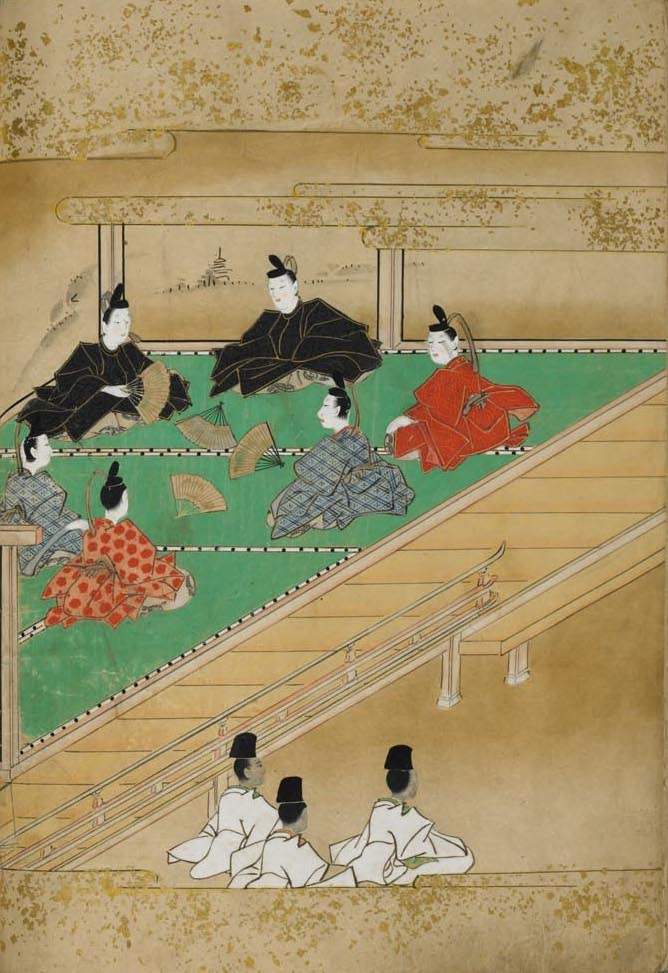 Prince Takayoshi and his colleagues, From Ehon Shinkyoku. Owned by Meisei University.